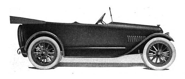 Image is of a 1917 Kline Kar 6-38 and is from page 78 of the Automobile Year Book 1917 from the Google Books archive: Title Automobile year book Publisher McClure's Magazine, Automobile Dept., 1917 Original from the New York Public Library Digitized Jun 2, 2006